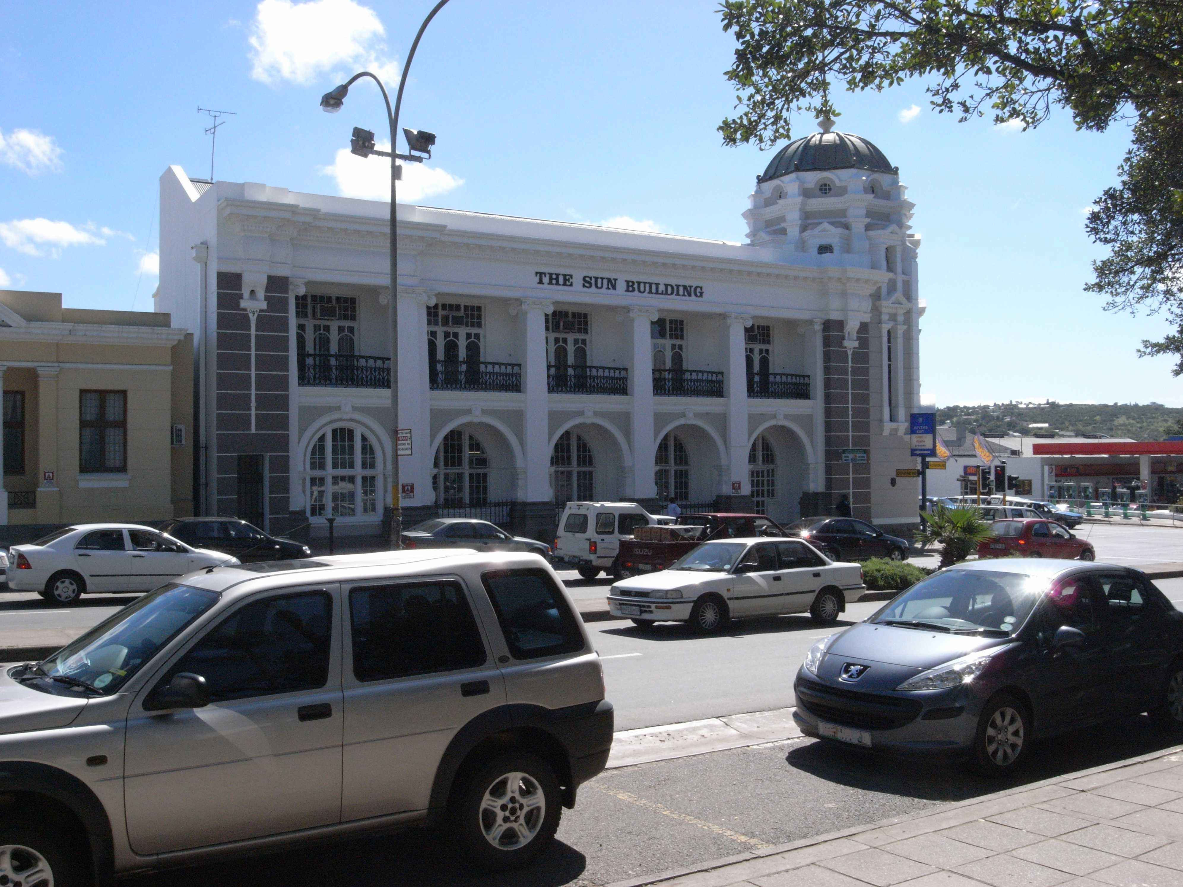 King William's Town, city center near Amathole Museum (Eastern Cape, South Africa)